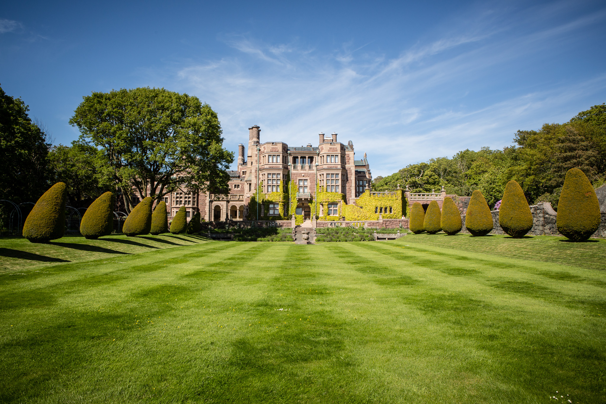 Tjolöholms slott viewed looking North.